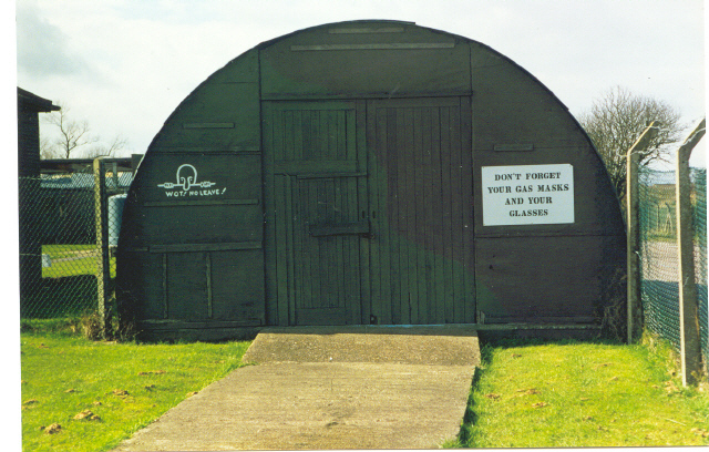 Hawkinge. Another of the original structures - complete with Kilroy - or Foo.